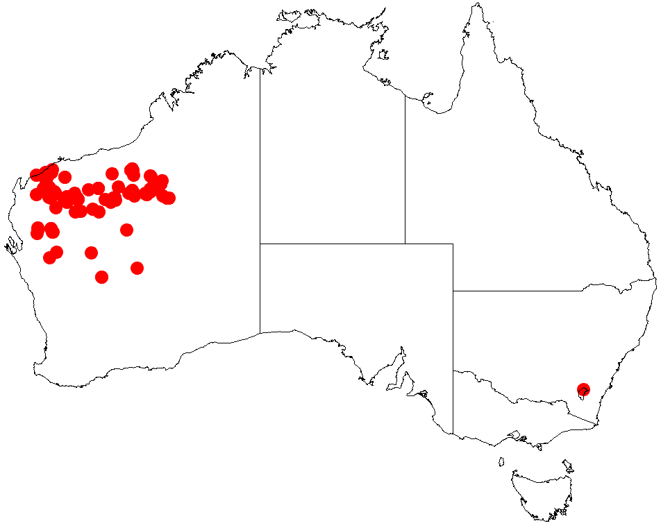 Acacia wanyu occurrence data from Australasia Virtual Herbarium downloaded from on 8 December 2018